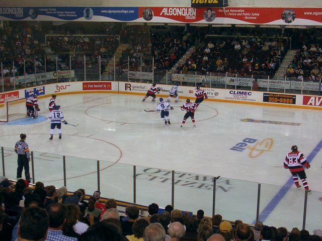 The Ontario Hockey League 2004-05 home opener for the Ottawa 67's against the Sudbury Wolves at the Ottawa Civic Centre in Ottawa, Ontario. The much lower ceiling under the stadium grandstand is shown.